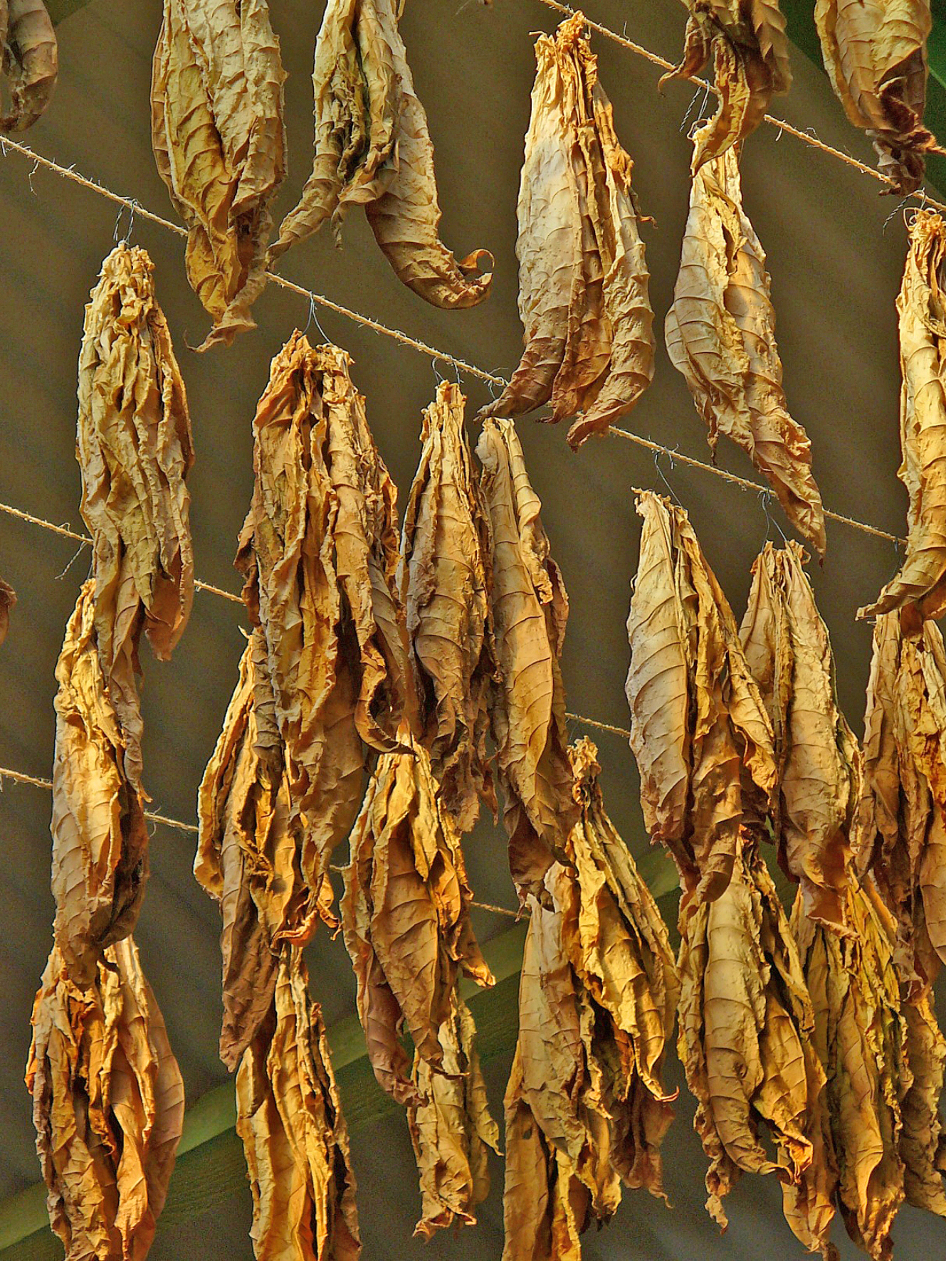 Nicotiana tabacum, Solanaceae, Common Tobacco, dried leaves. Stutensee, Germany.